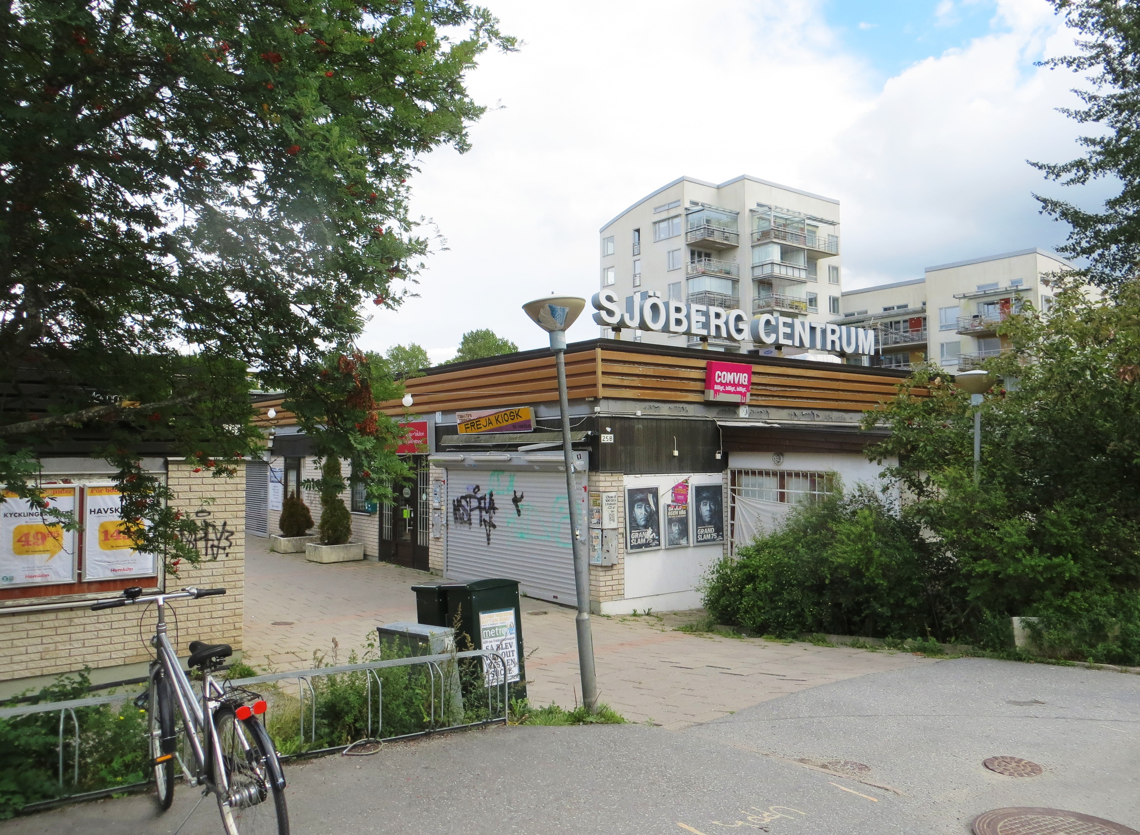 Center of Sjöberg in Sweden.